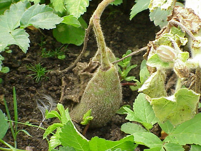 Species: Proboscidea louisianica Family: Martyniaceae Image No. 3